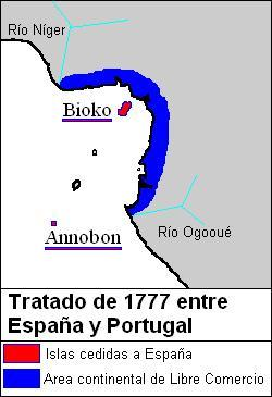 Map of Spain-Portugal First Treaty of San Ildefonso in Africa.